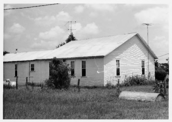 View looking northeast at the old farm house at Walter C. Porter Farm